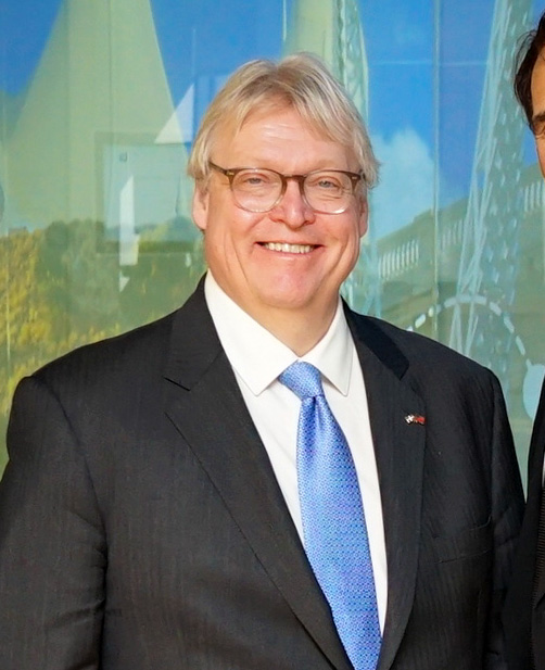 The Honourable Doctor Gaétan Barrette, from the Québec National Assembly, with Québec Washington Office tours the Kaiser Permanente Center for Total Health with Robert Pearl, MD, Executive director and CEO, The Permanente Medical Group; president and CEO, Mid-Atlantic Permanente Medical Group; co-CEO, The Permanente Federation, LLC